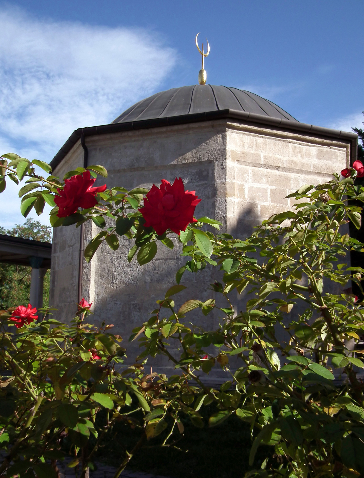 Tomb (Türbe) of Gül Baba, in Budapest, Hungary. Ottoman mausoleum from the 16th century.